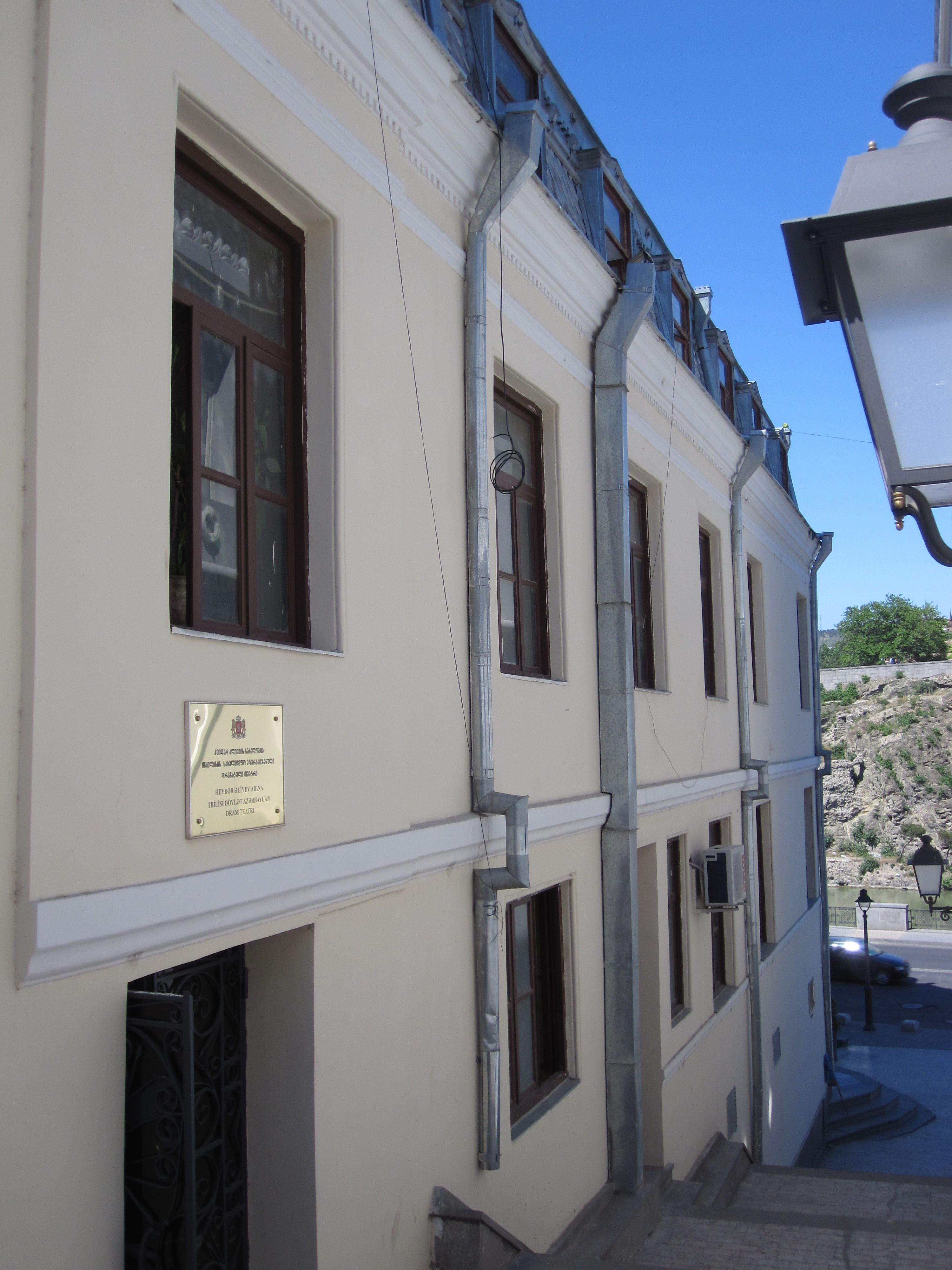 Façade of the Tbilisi Azeri Drama Theatre